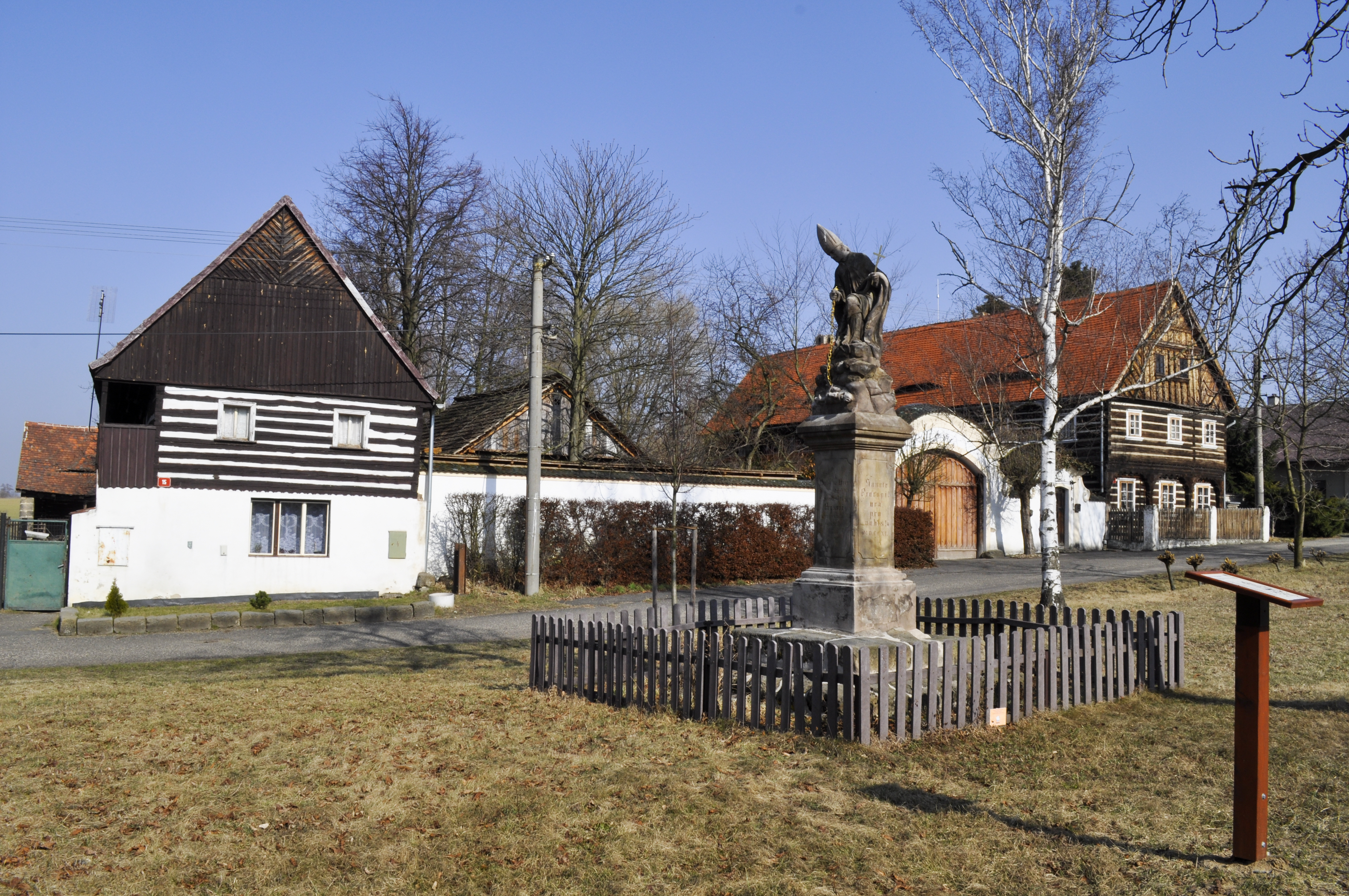 Houses at the main square, Ústí nad Labem Region